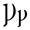 Sample of the Norse letter Vend. Created from the open source Junicode font version.